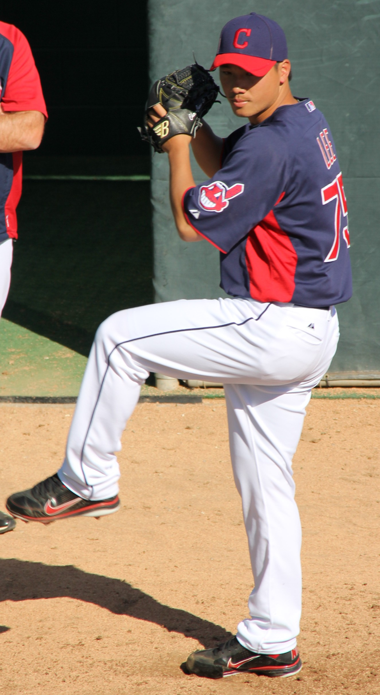 CC Lee in 2012 Cleveland Indians Spring Training.